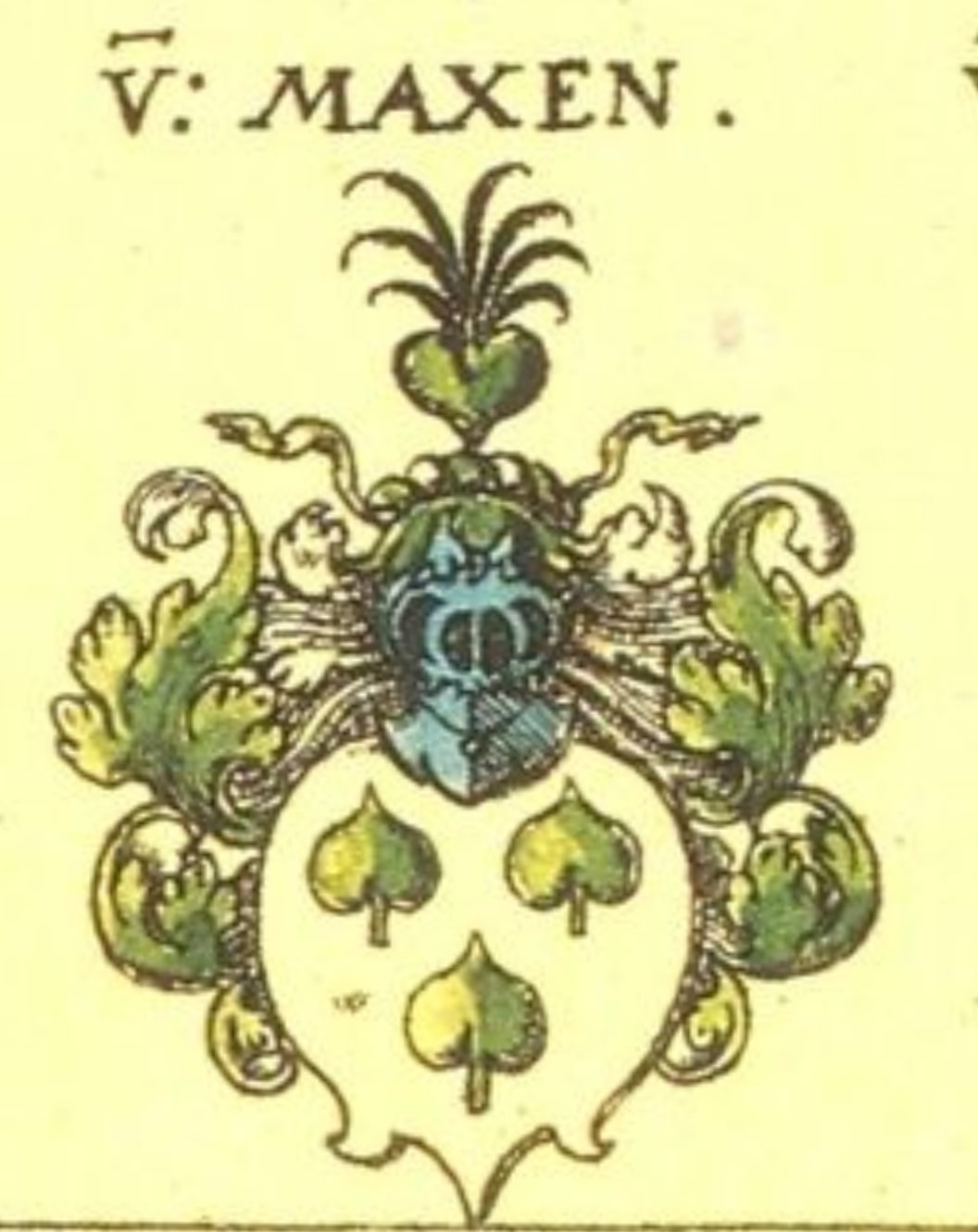 Coat of arms of the family von Maxen.